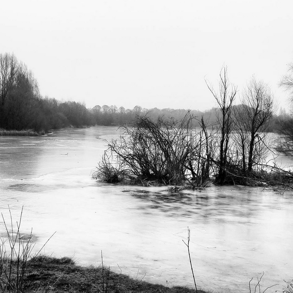 Landschaftssee Allacher Lohe, München